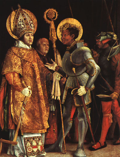 Alciato's Book of Emblems The Memorial Web Edition in Latin and English Andrea Alciato's Emblematum liber or Book of Emblems had enormous influence and popularity in the 16th and 17th centuries. It is a collection of 212 Latin emblem poems, each consisting of a motto (a proverb or other short enigmatic expression), a picture, and an epigrammatic text. Alciato's book was first published in 1531, and was expanded in various editions during the author's lifetime. It began a craze for emblem poetry that lasted for several centuries. We use the Latin text and images from an important edition of 1621 and we give a translation into English.